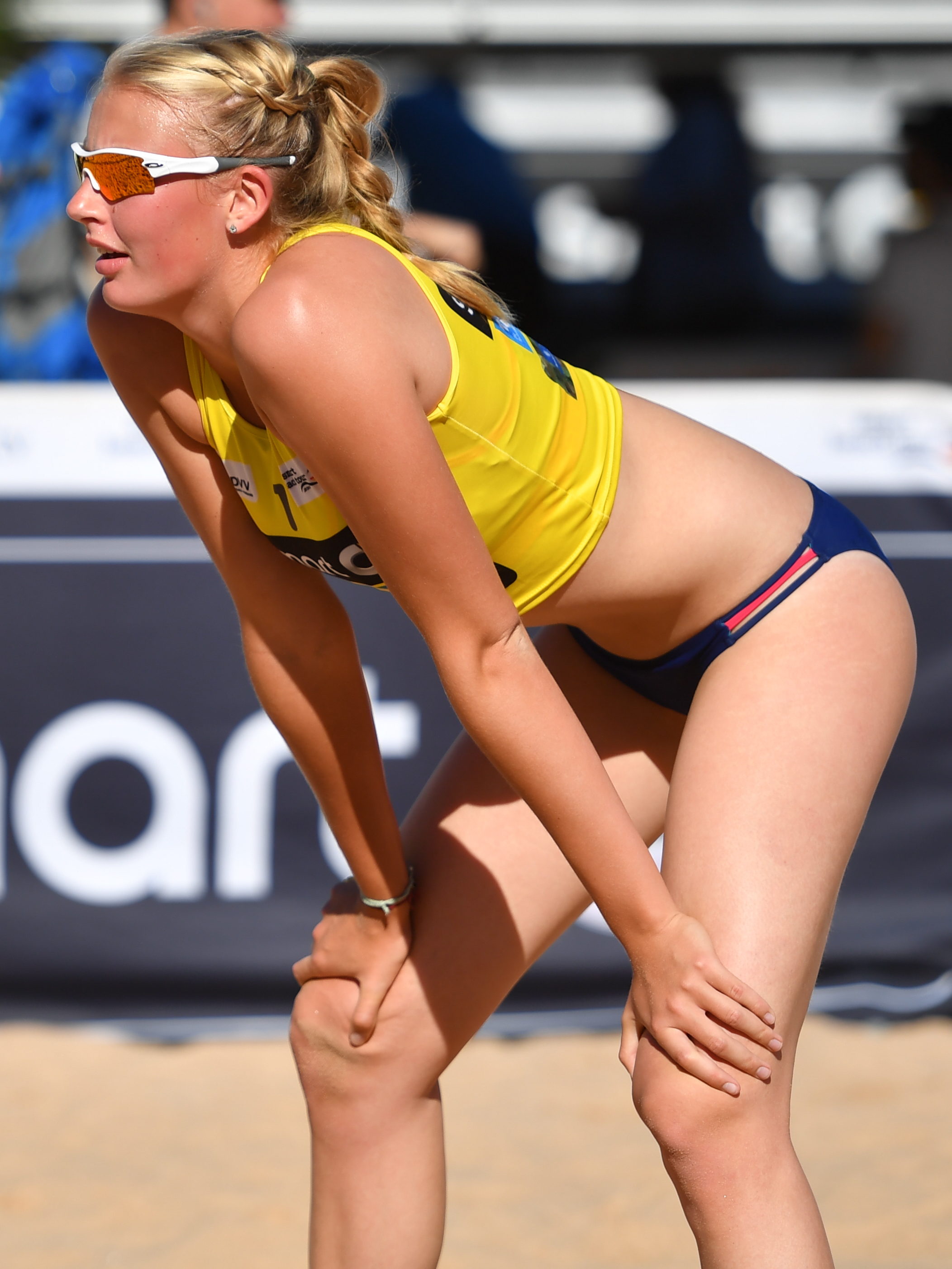 27/5/2017, Nuremberg, Germany, Sports, beach volleyball, smart beach cup Nuernberg.